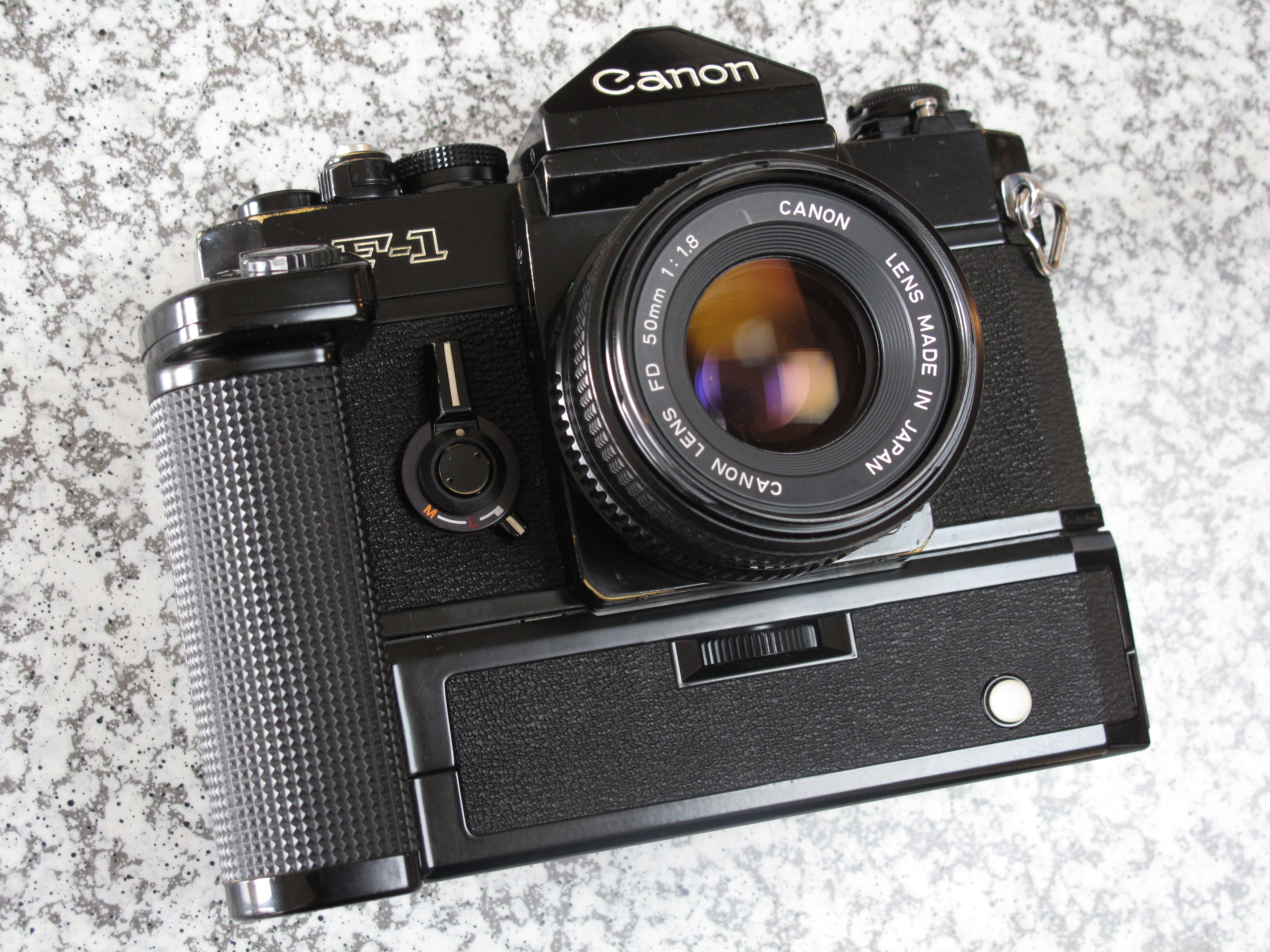 1406g (F-1 + Power Winder F + New FD50mm f/1.8) It is very heavy.